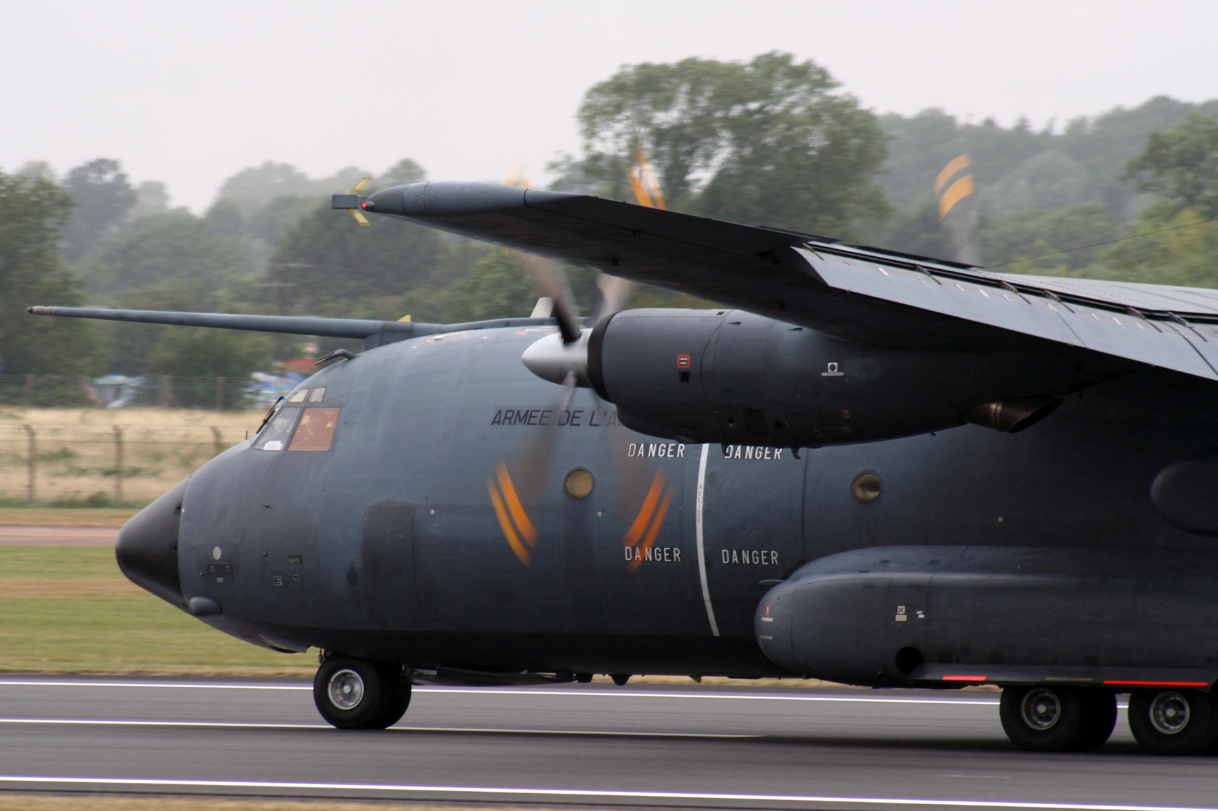 Transall C-160R French Air Force R210 / 64-GJ C/N 213